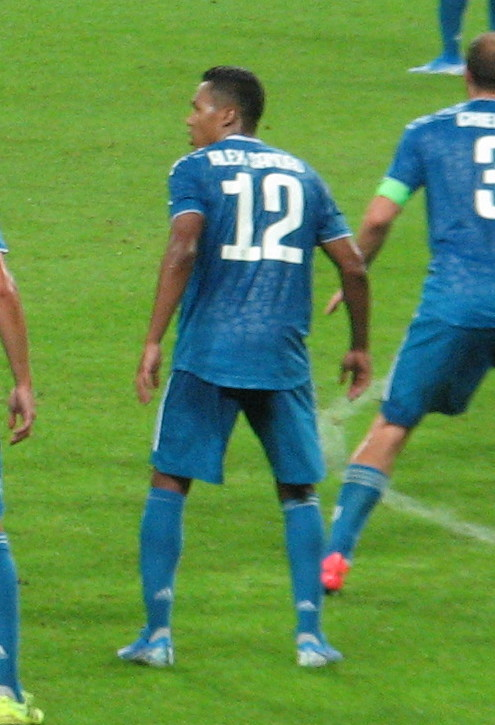 20190810 International Champions Cup at Friends Arena. Goals by Thomas Lemar (24') and Joáo Felix (33') for Atlético Madrid and by Sami Khedira (29') for Juventus.